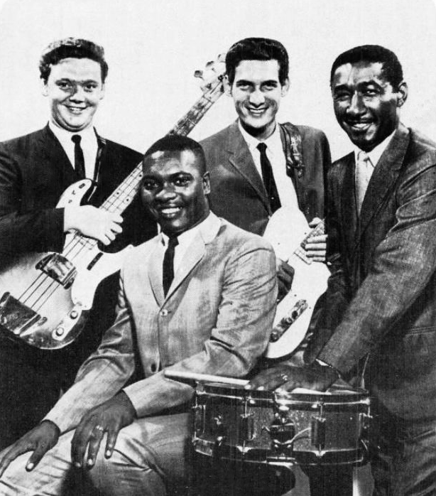 Trade ad for Booker T. & the M.G.'s single "Hip Hug Her". To better adapt it to his respective Wikipedia article, the ad was cropped and cleaned in a graphics editing program. The original can be viewed at the source below.